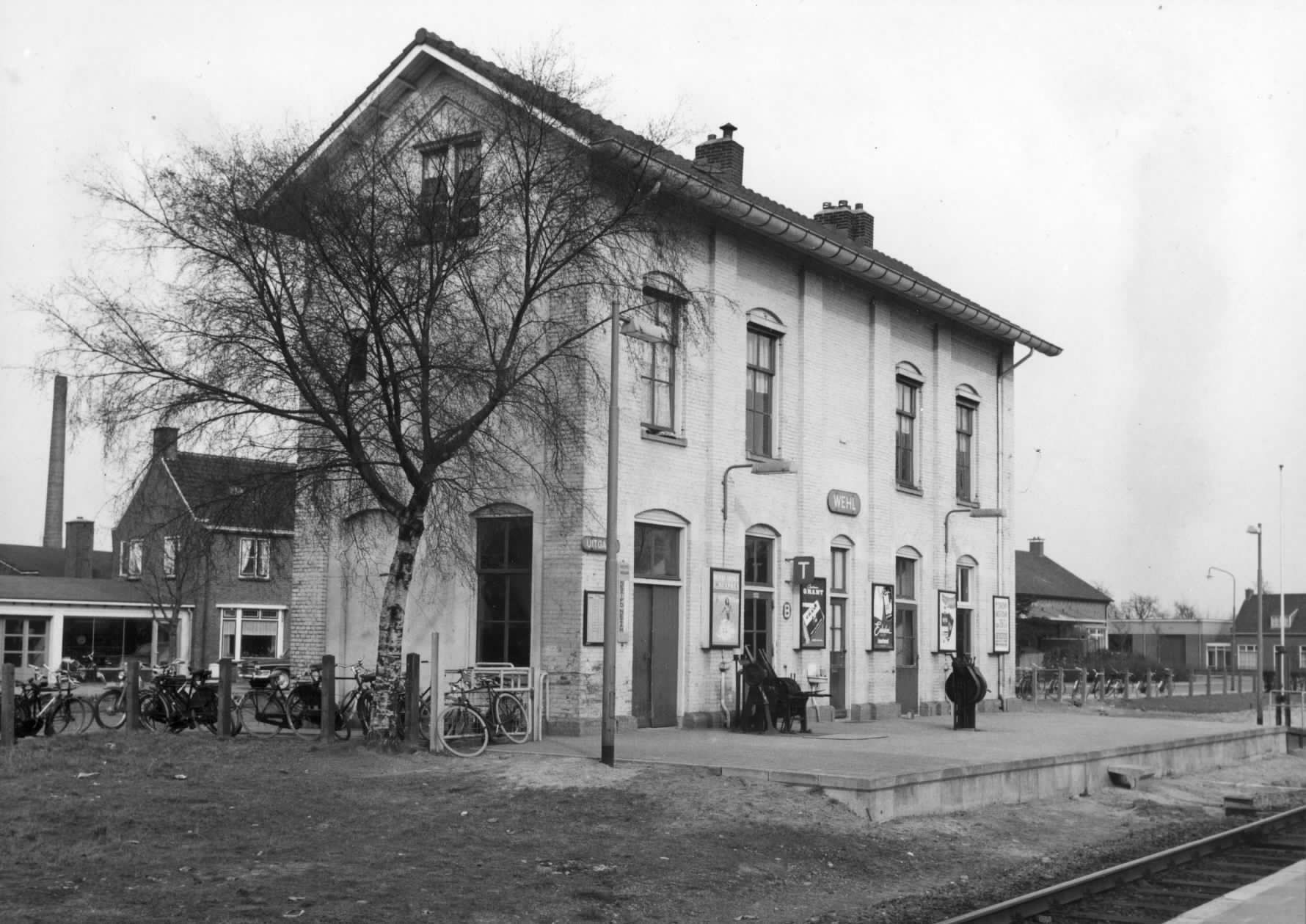 View of the platform side of the N.S.-station Wehl.